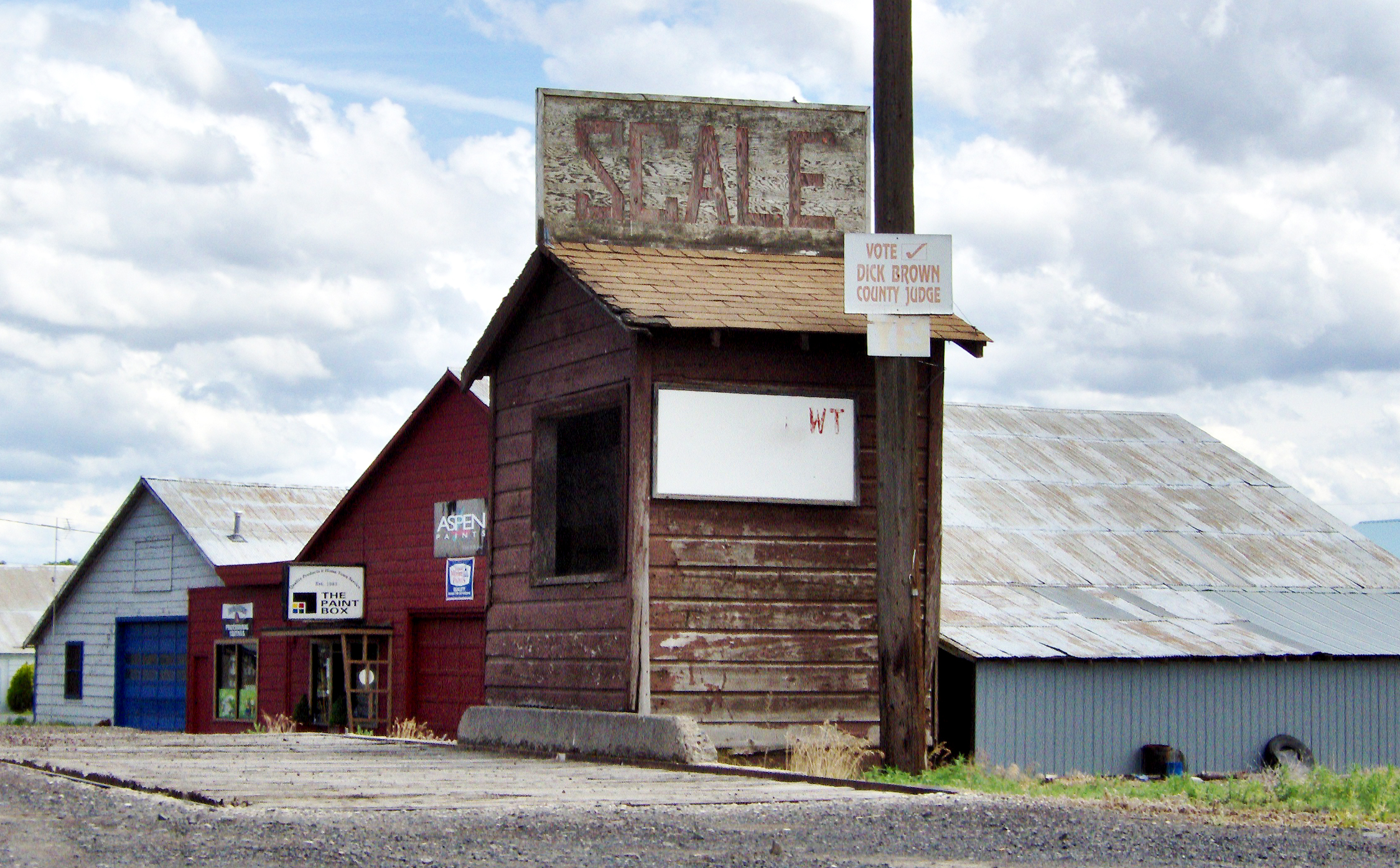 Small building contained scale attendant and weight measurement readouts.